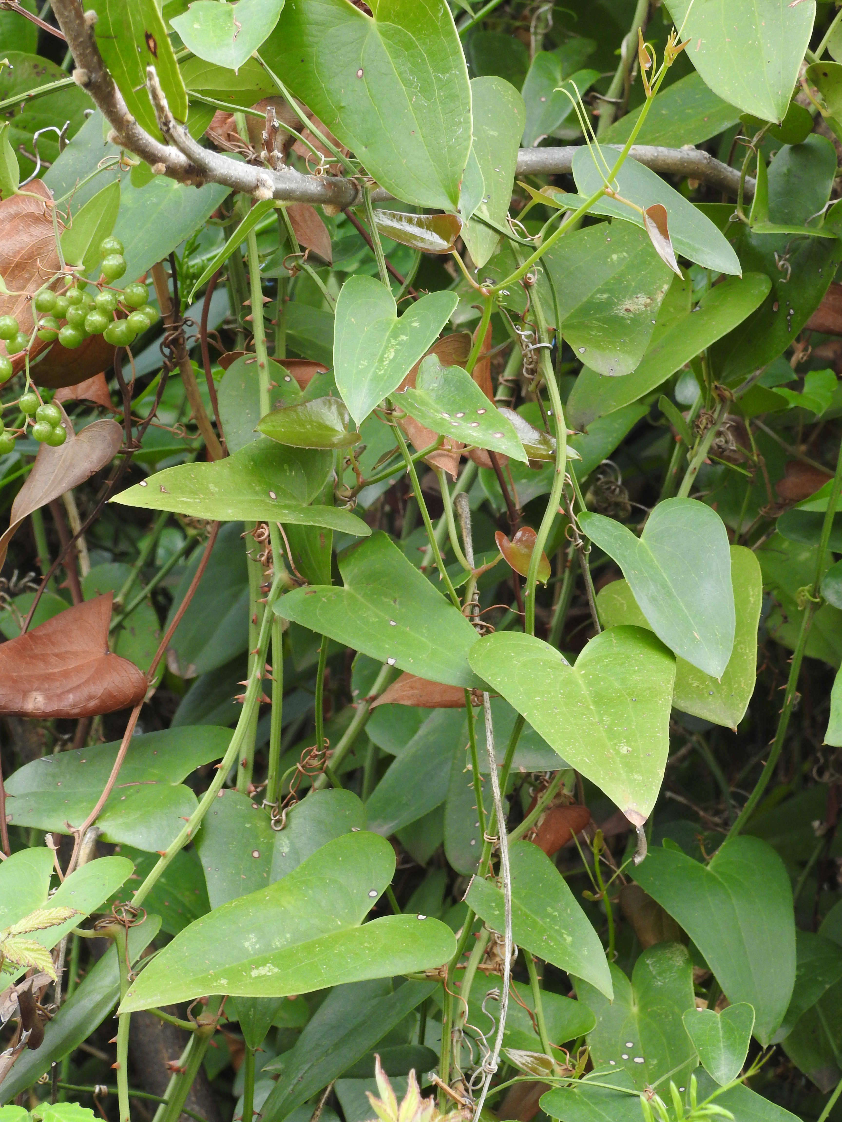 Common smilax (Smilax aspera), Zingaro, Sicily, Italy